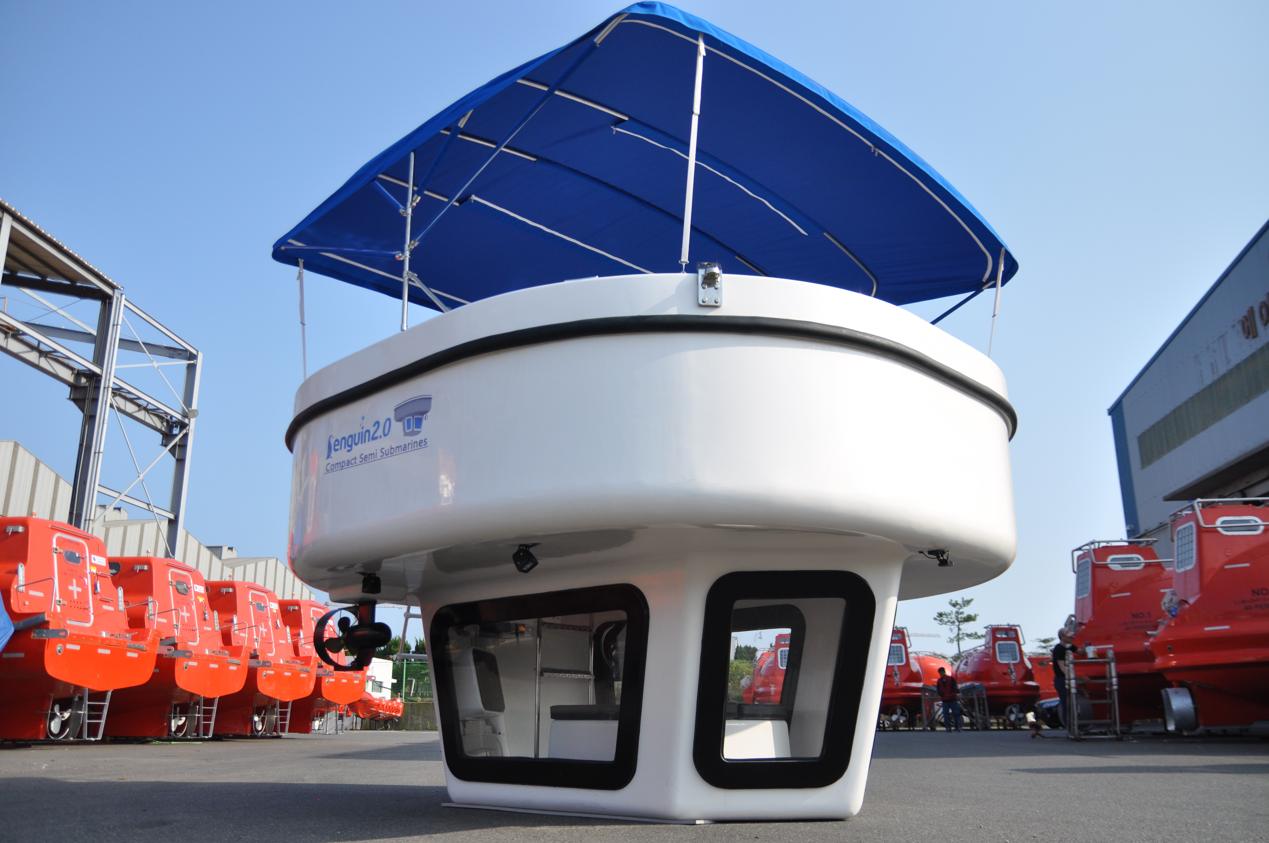 Penguin2.0 model - Compact Semi Submarine